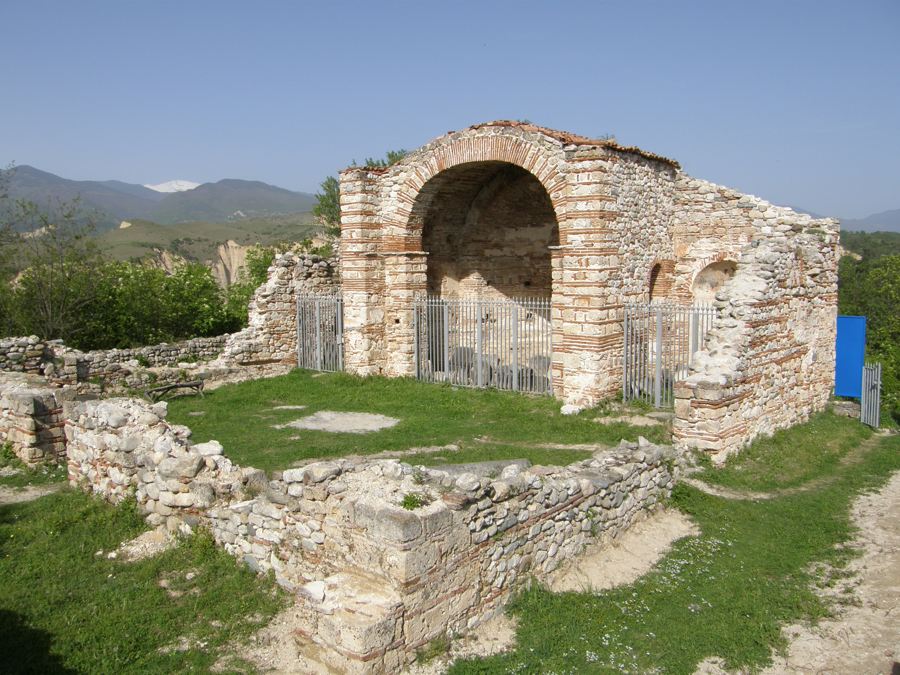 The ruins of "Saint Nicola"church at Melnik, Bulgaria. "Saint Nicola" church at Melnik, Bulgaria...